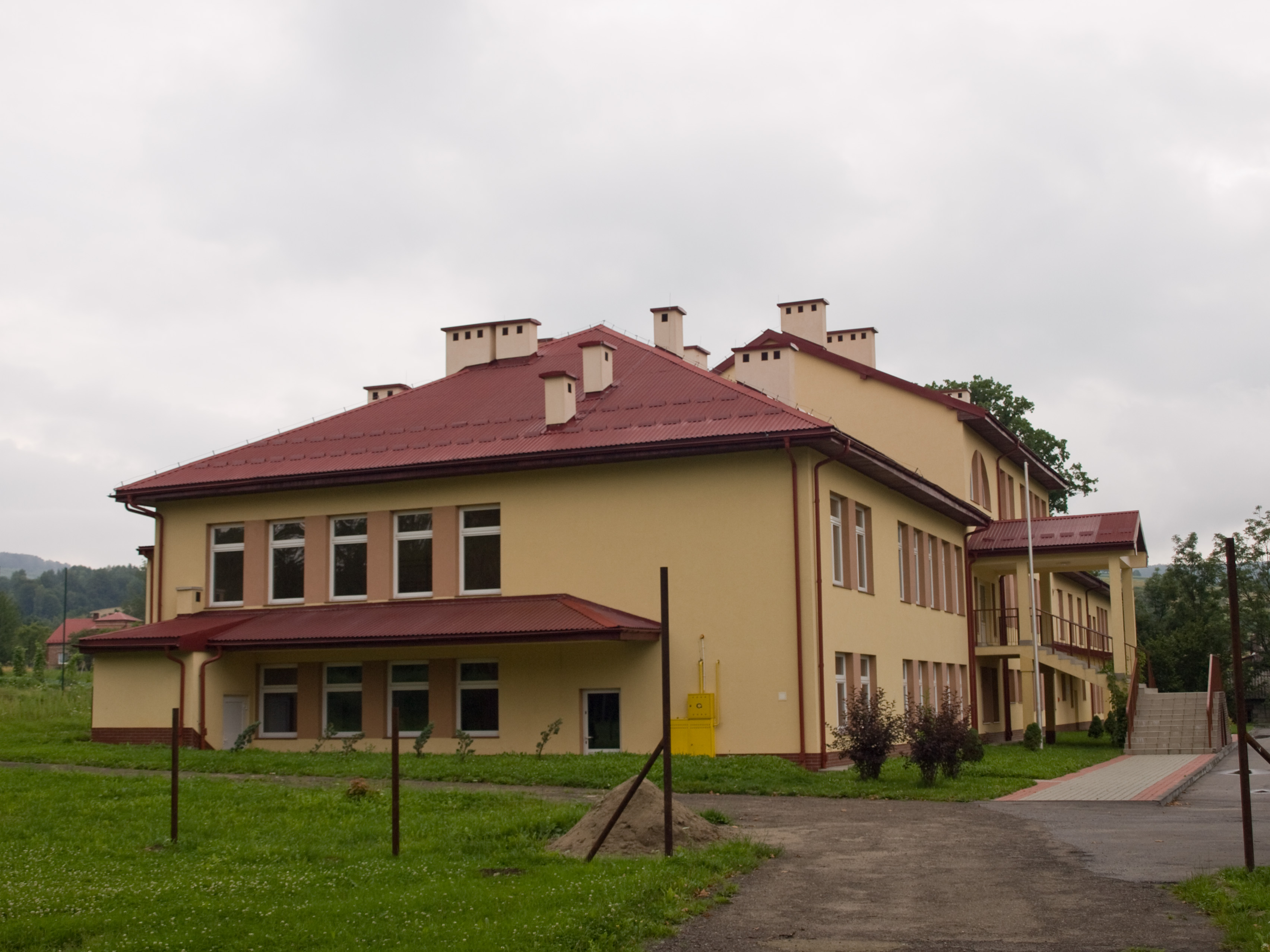 School, Falejówka, Subcarpathian Voivodeship